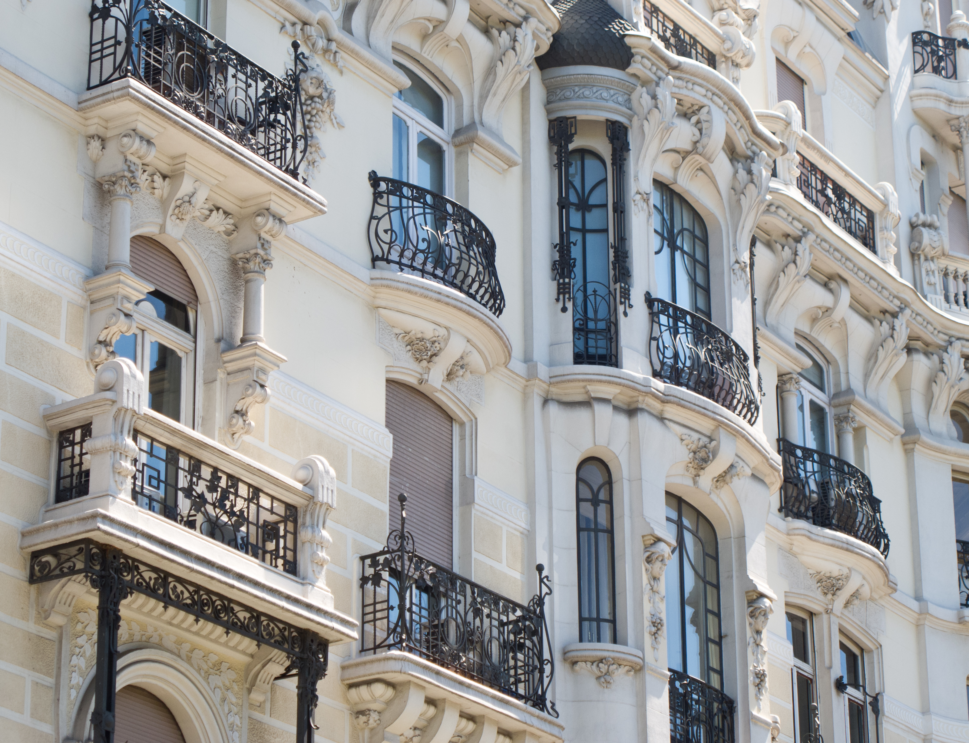 Gallardo House, Madrid, Spain.